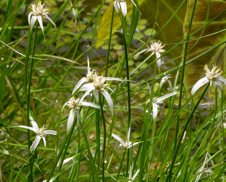 Star-rush, White-top sedge, Australia.